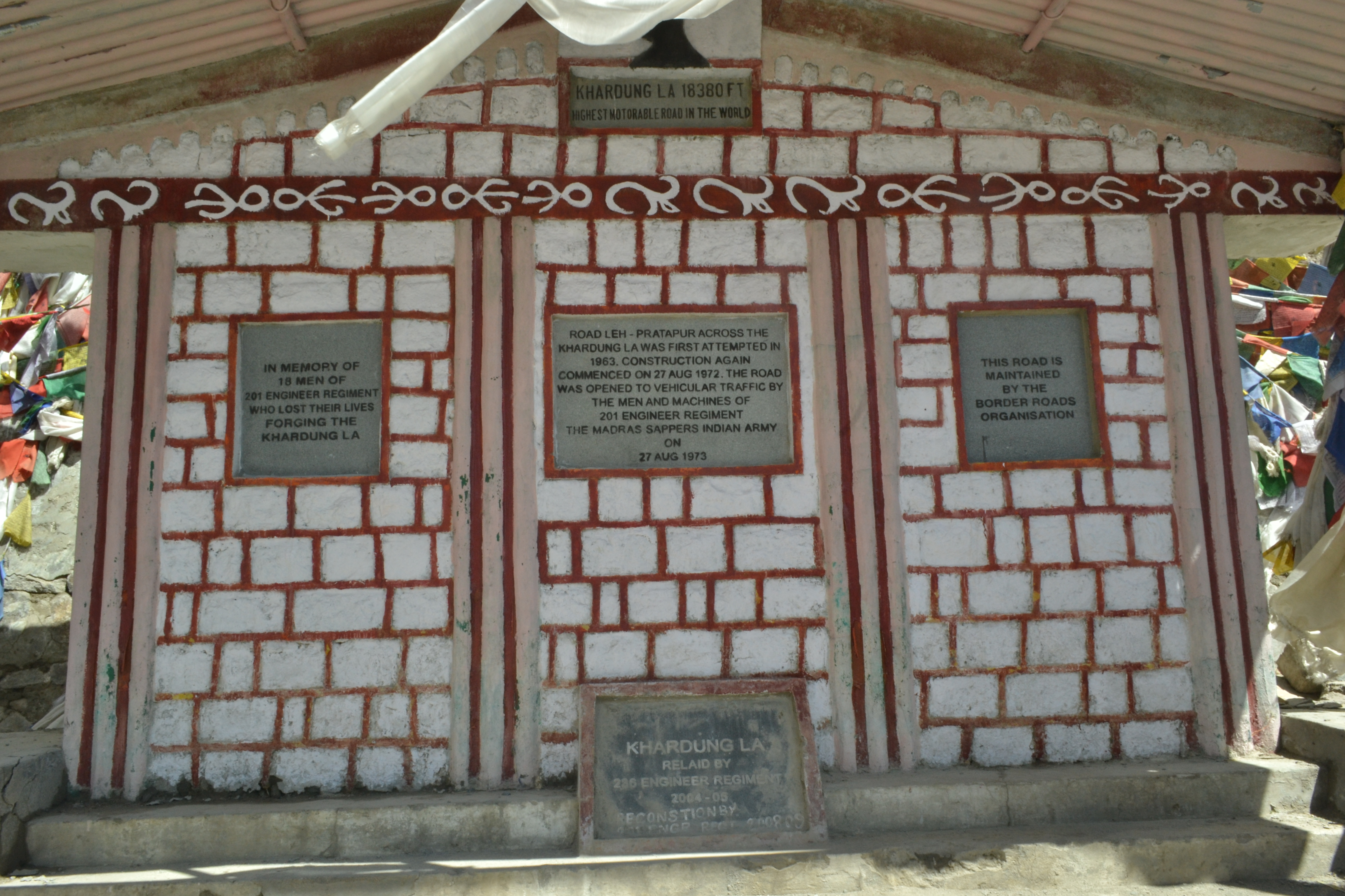 Khardung La is claimed to the the highest motor-able road in the world.